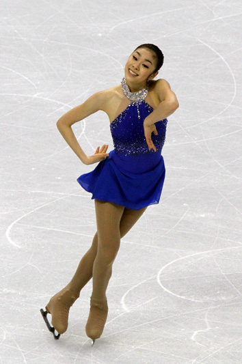 Kim 2010 Olympics FS